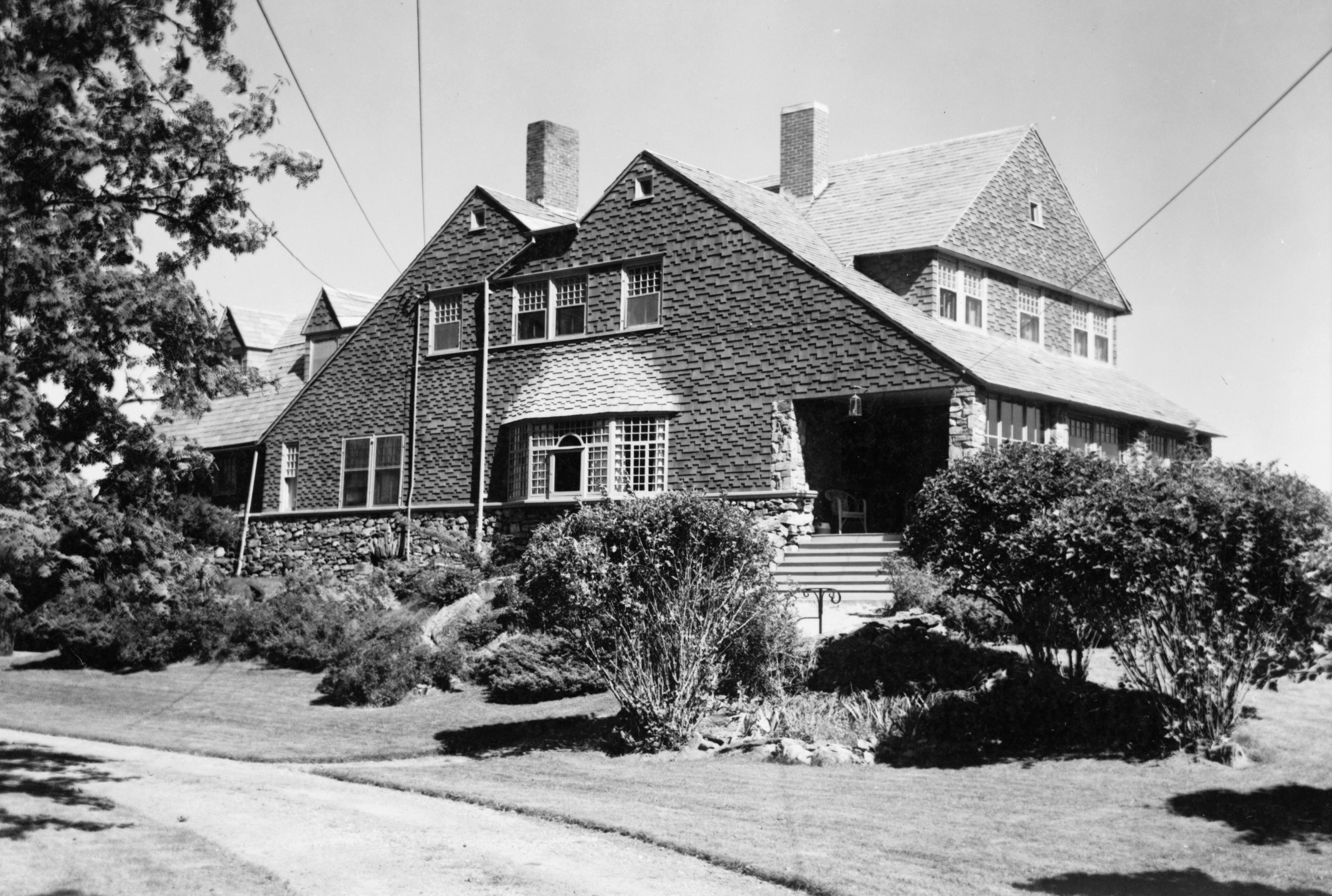 Front and western side of the C.A. Brown Cottage, located at 9 Delano Park in Cape Elizabeth, Maine, United States. Built in 1886, it is listed on the National Register of Historic Places.